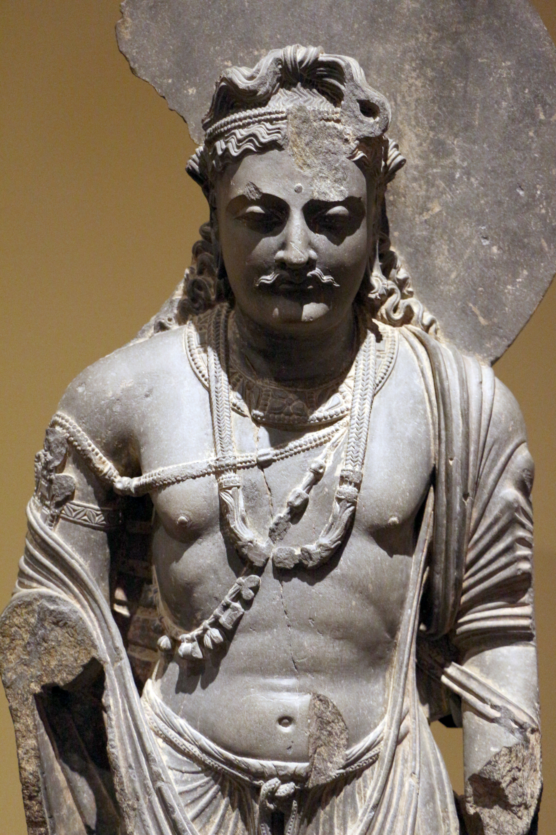 Art of Gandhara in the Cleveland Museum of Art